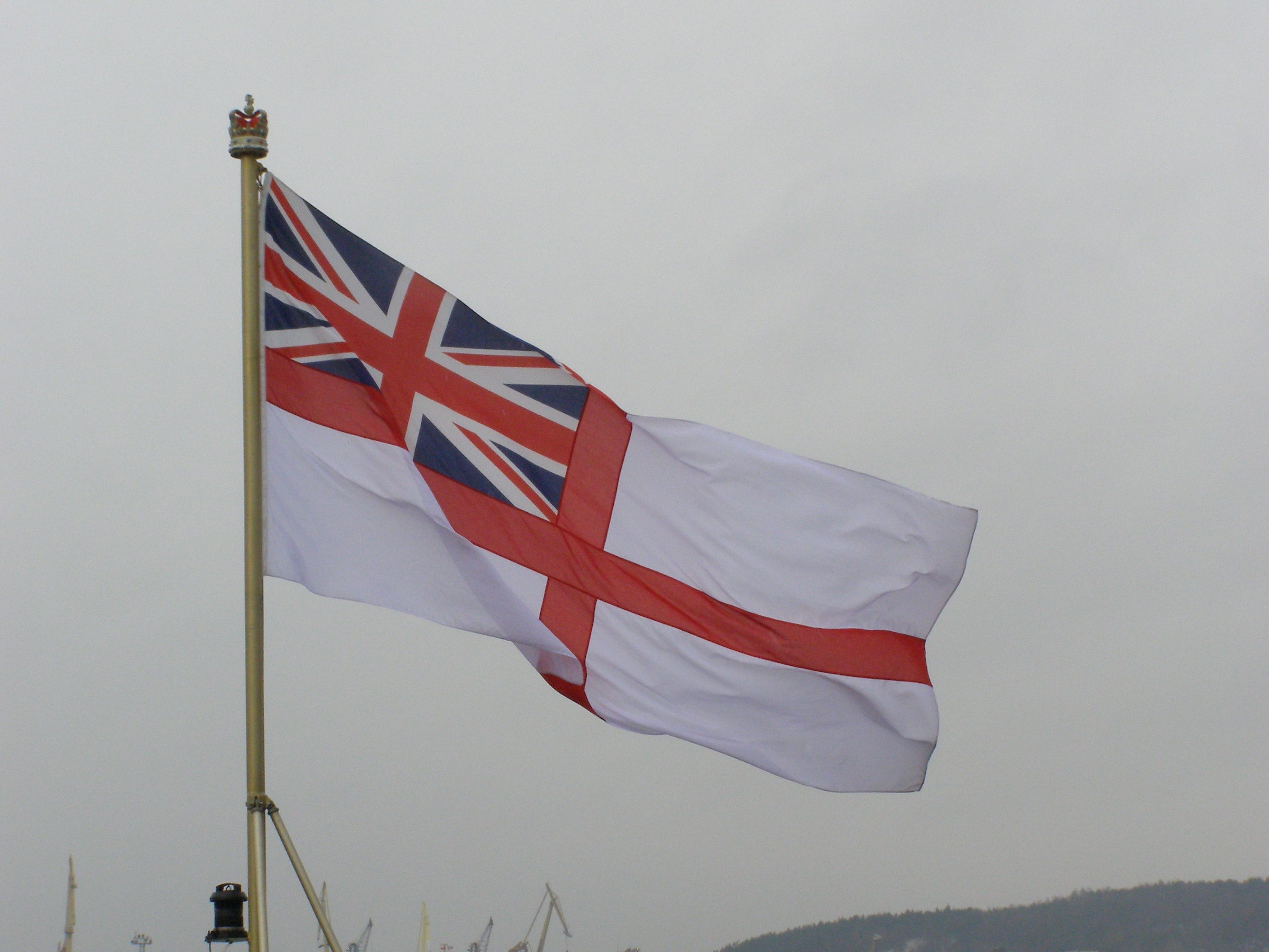 Gdynia - Royal Navy ensign flown by HMS Bulwark